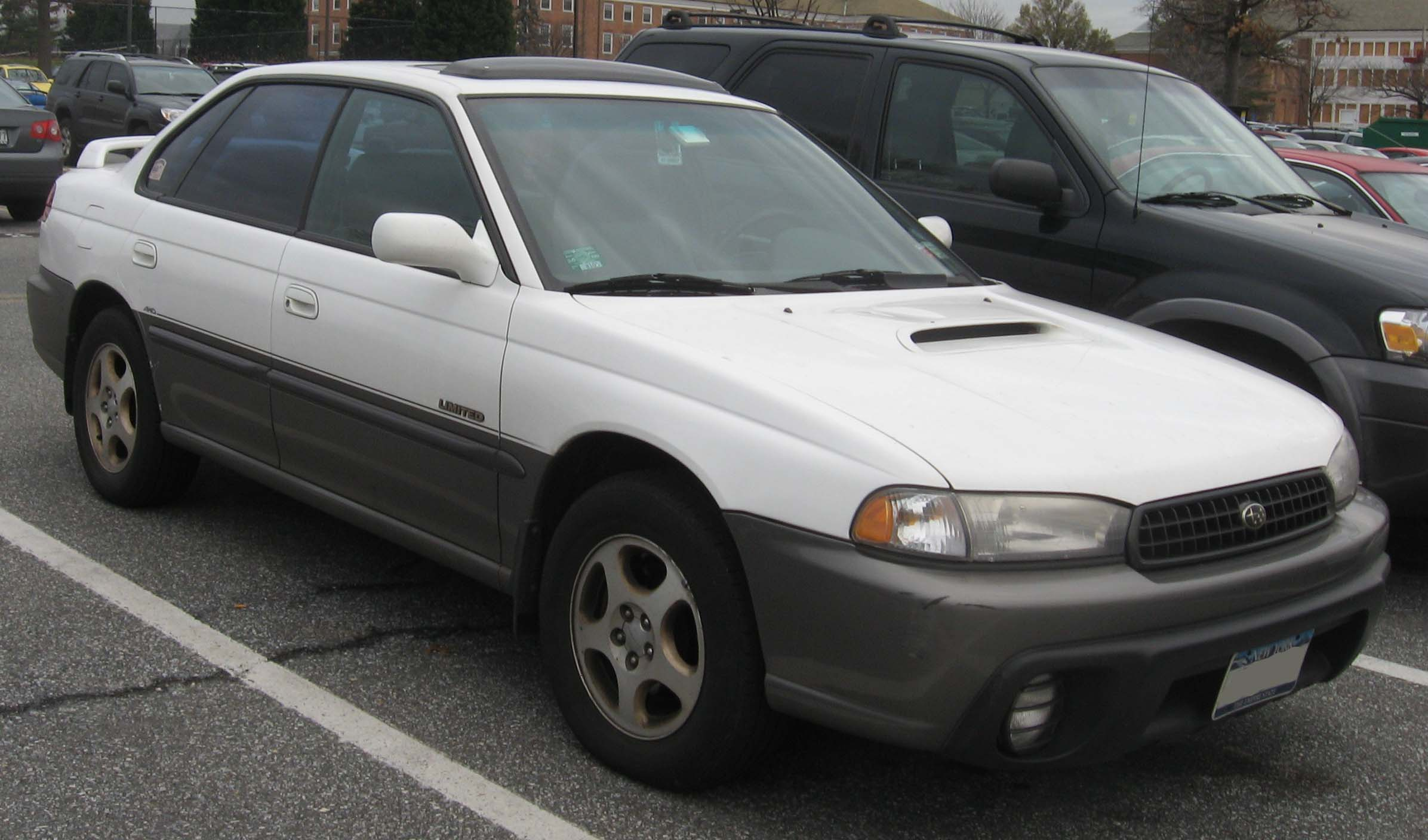 1998-1999 Subaru Outback photographed in College Park, Maryland, USA.